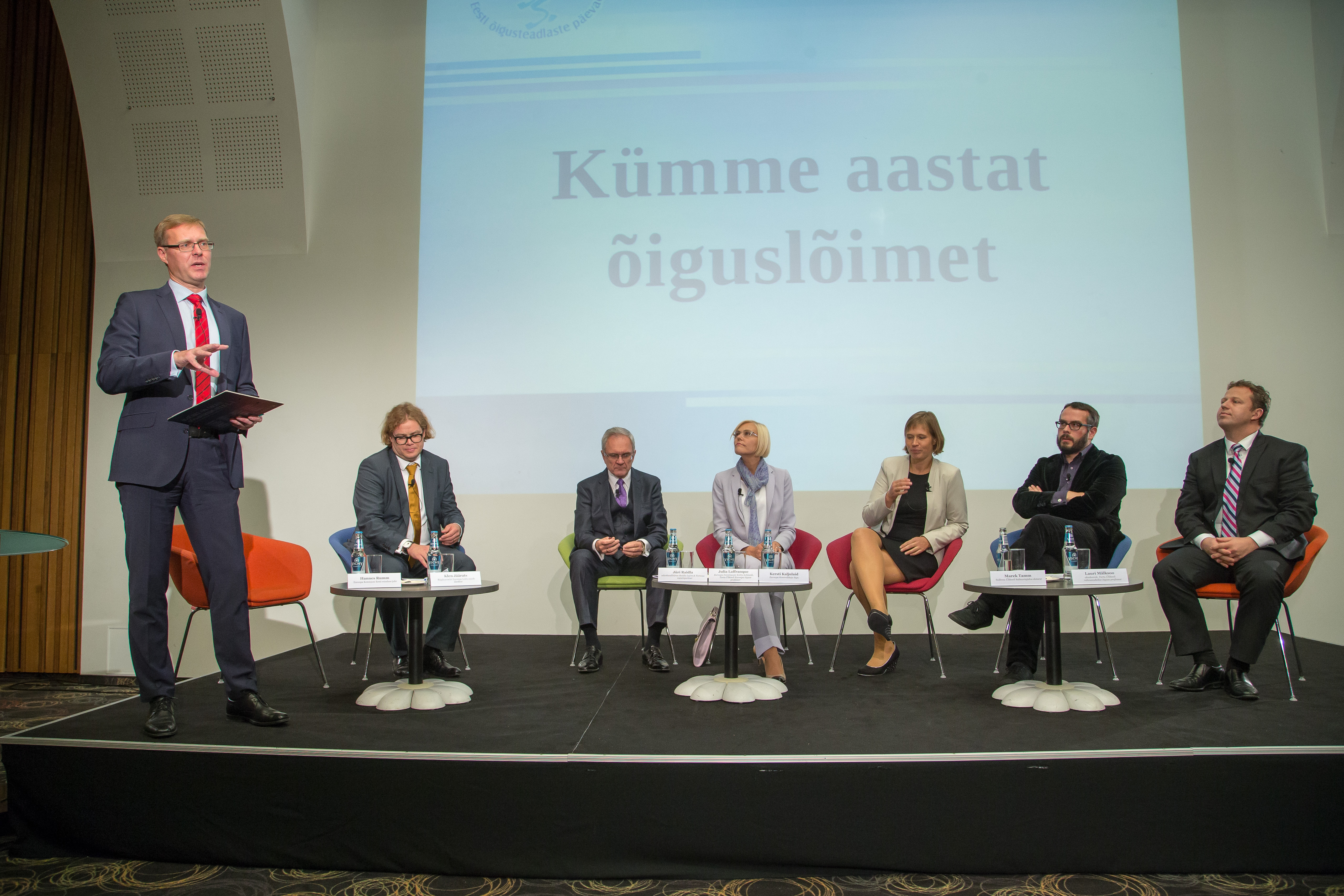 Eesti õigusteadlaste päevad "Kümme aastat õiguslõimet". Hannes Rumm, Klen Jäärats, Jüri Raidla, Julia Laffranque, Kersti Kaljulaid, Marek Tamm ja Lauri Mälksoo.